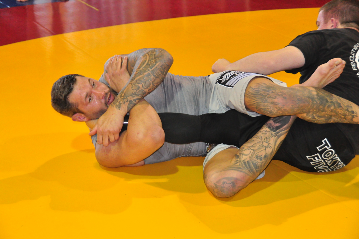 Neil Melanson demonstrating a kneebar leglock at a March 2012 seminar.